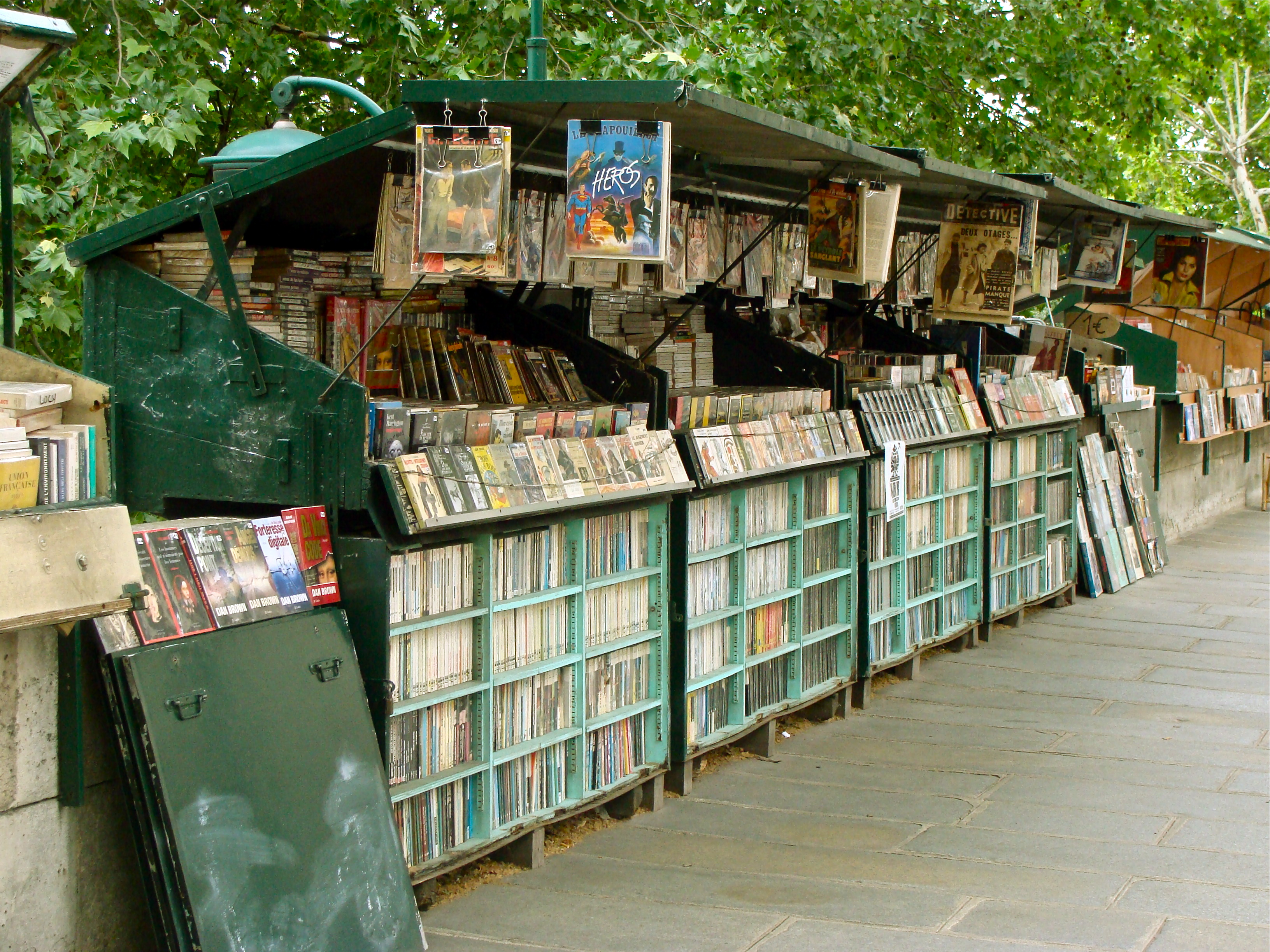 a "bouquiniste" by the Seine, in Paris, France